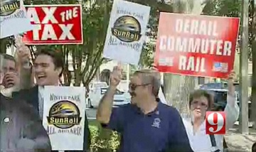 Activists at an Ax the Tax rally in Orlando.